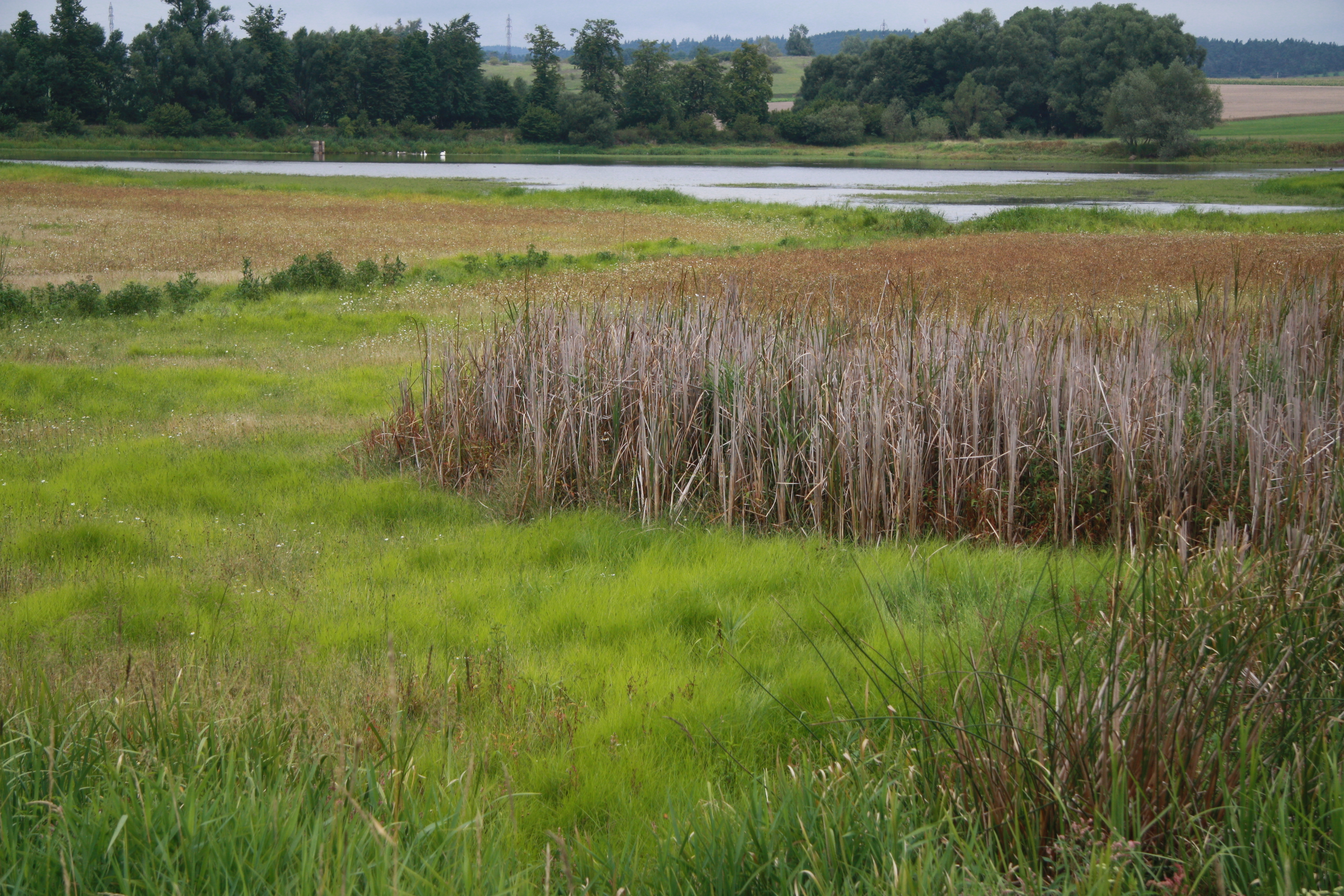 Pond Nový rybník with wetlands in Ptáčovské rybníky near Ptáčov, Třebíč, Třebíč District.